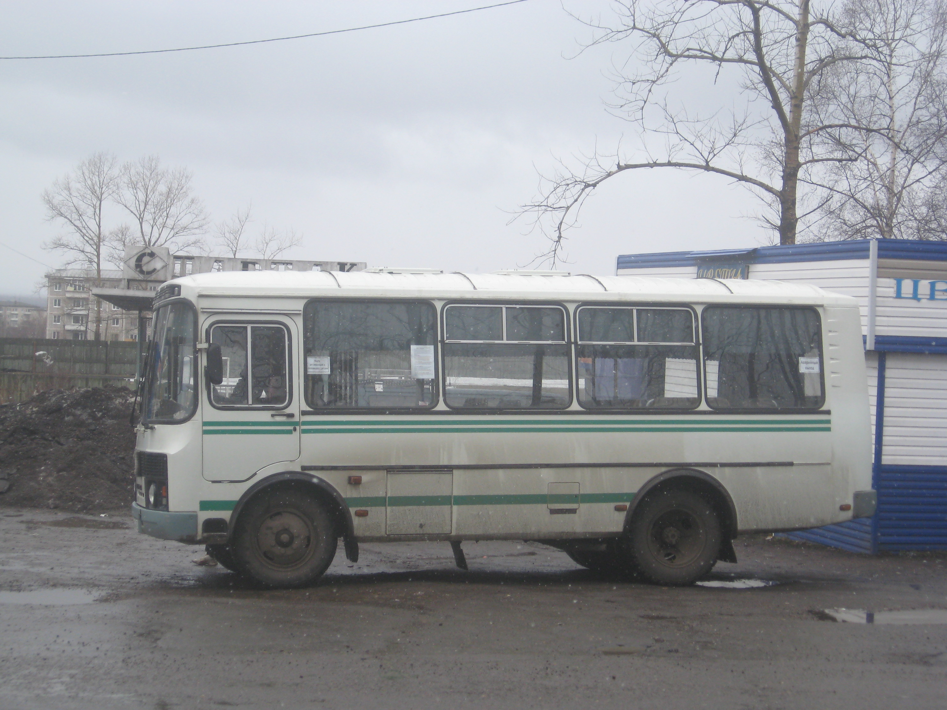 The Sity of Sovetskaya Gavan. "PAZ" bus